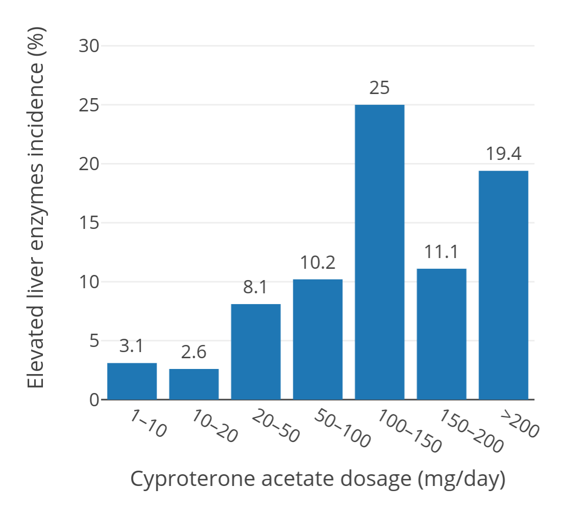 Incidences (%) of elevated liver enzymes with different dosages (mg/day) of cyproterone acetate (CPA; brand name Androcur) in healthy males and females. The findings were from the SExual-HOrmonal Surveillance STudy (SEHOST) of CPA for non-prostate cancer indications (including hyperandrogenism (due to PCOS, CAH, and idiopathic/unknown), precocious puberty, sexual deviance, and transgenderism) and the sample size for liver enzymes was 1,685 males and females of all ages (3 to 75 years for the total study sample). Of the total study sample (n = 2,506), the mean follow-up period was 6.7 years and in 602 cases the follow-up period was more than 10 years. The study was an active surveillance study and was an open-labelled, uncontrolled follow-up study with historic (retrospective) accrual of patients. Source of the values: (May 1997). "Safety of cyproterone acetate: report of active surveillance". Pharmacoepidemiol Drug Saf 6 (3): 169–78. 10.1002/(SICI)1099-1557(199705)6:3 3.0.CO;2-3. PMID 15073785.